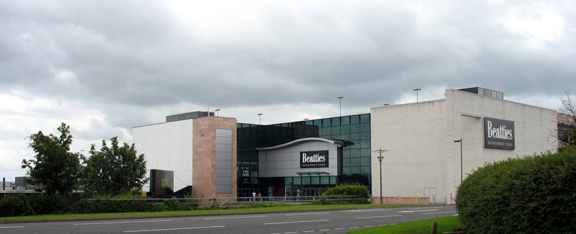 Beatties store in Telford Shopping Centre, Telford, England. Photo taken by Chris Bayley using a Canon Powershot A610.